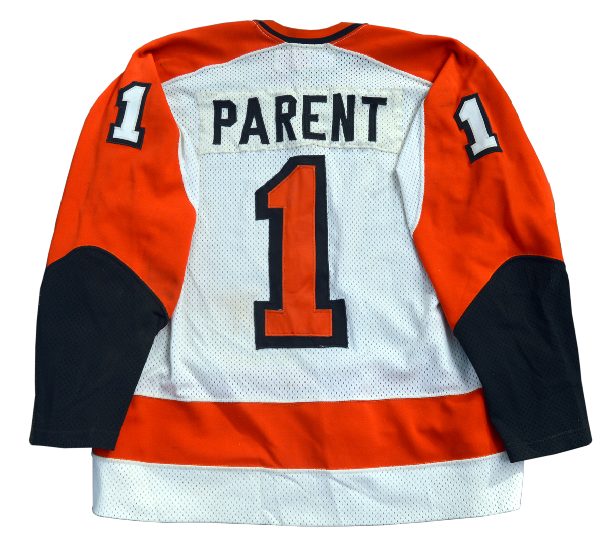 Philadelphia Flyers jersey (#1) worn by Hall of Fame goalkeeper Bernard Marcel "Bernie" Parent in his last game on February 17, 1979.